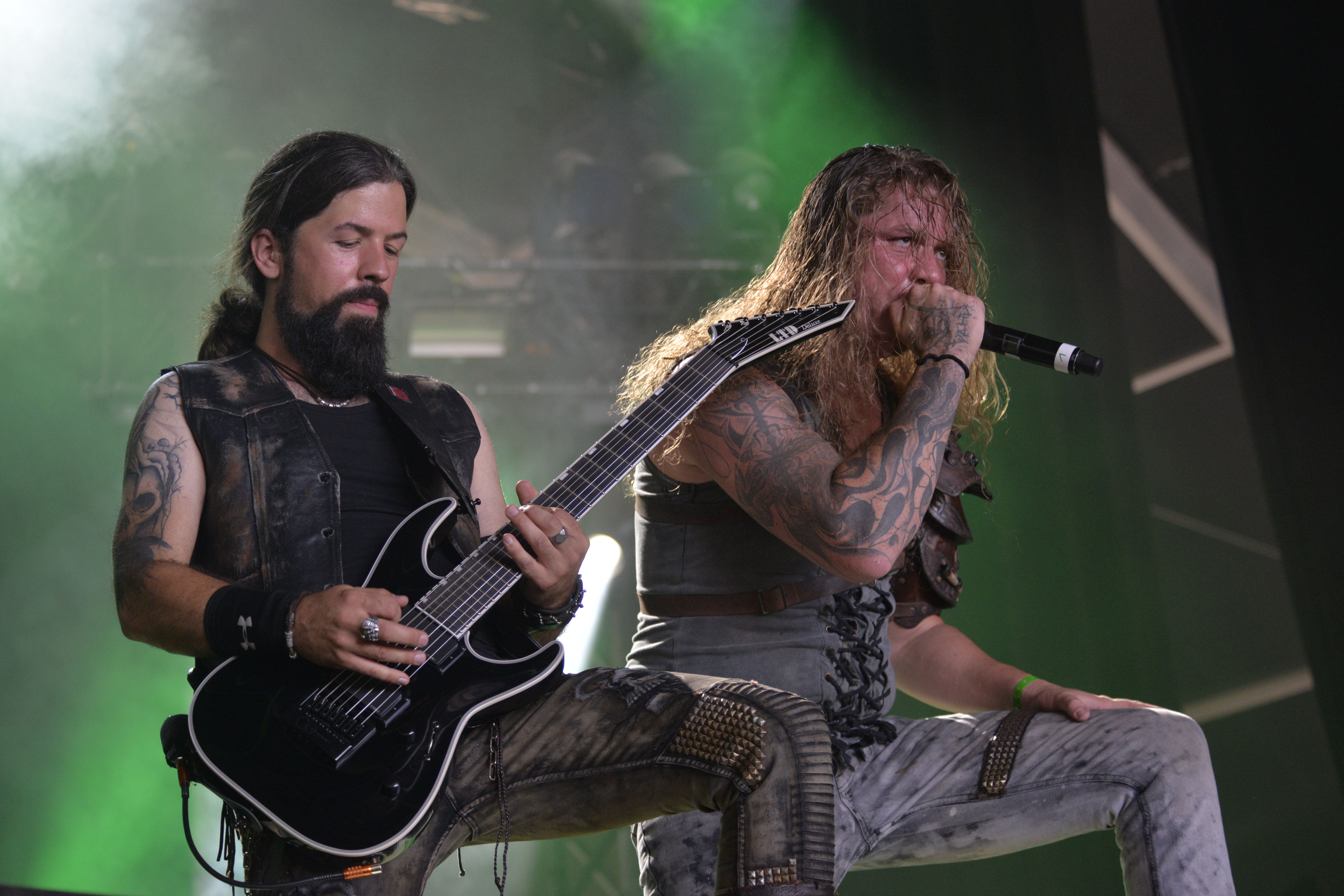 René Berthiaume and Robert Dahn, guitarist and singer of german group Equilibrium at 2017 Hellfest, France.